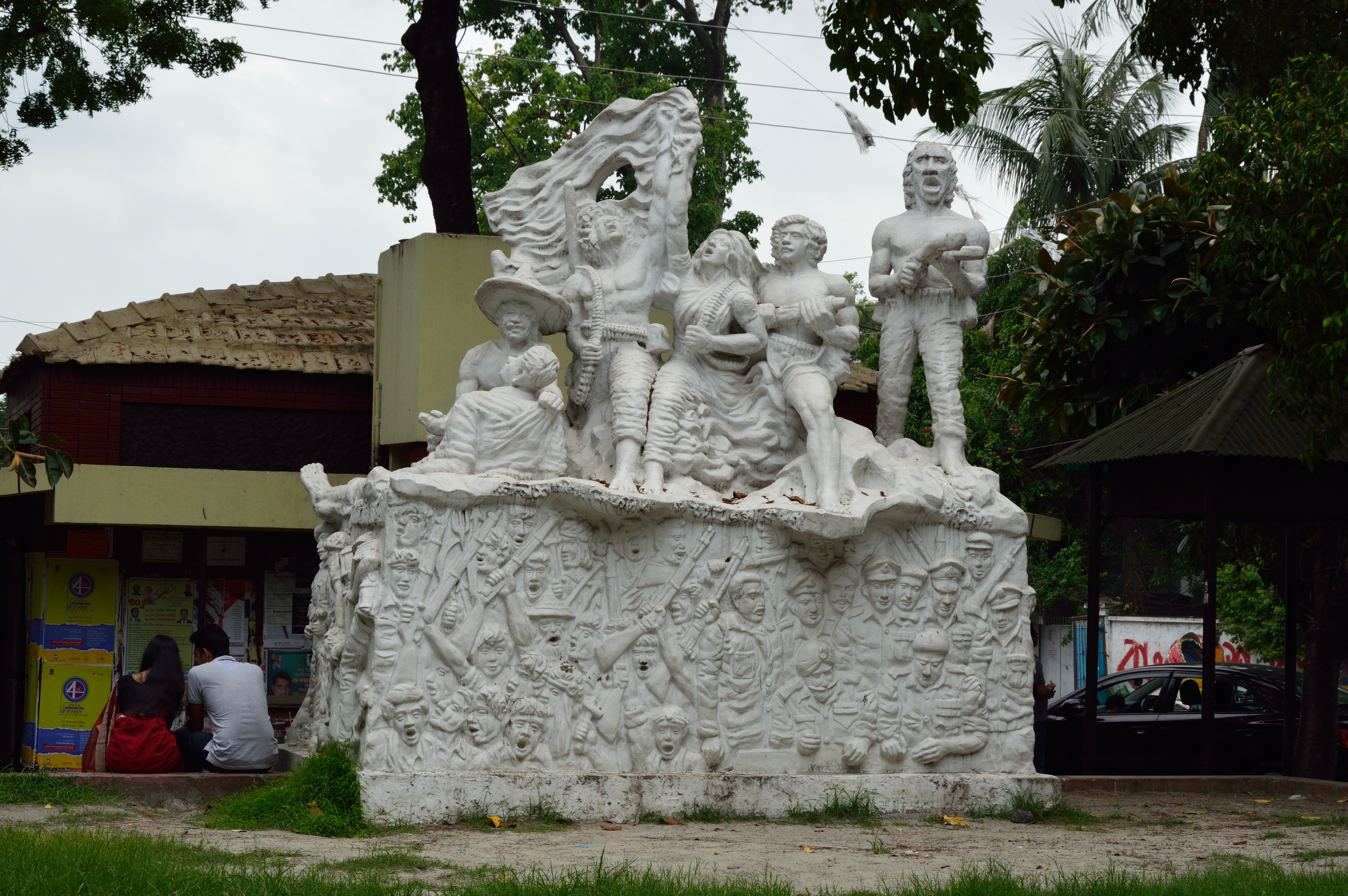 Photographed in Dhaka, Bangladesh.